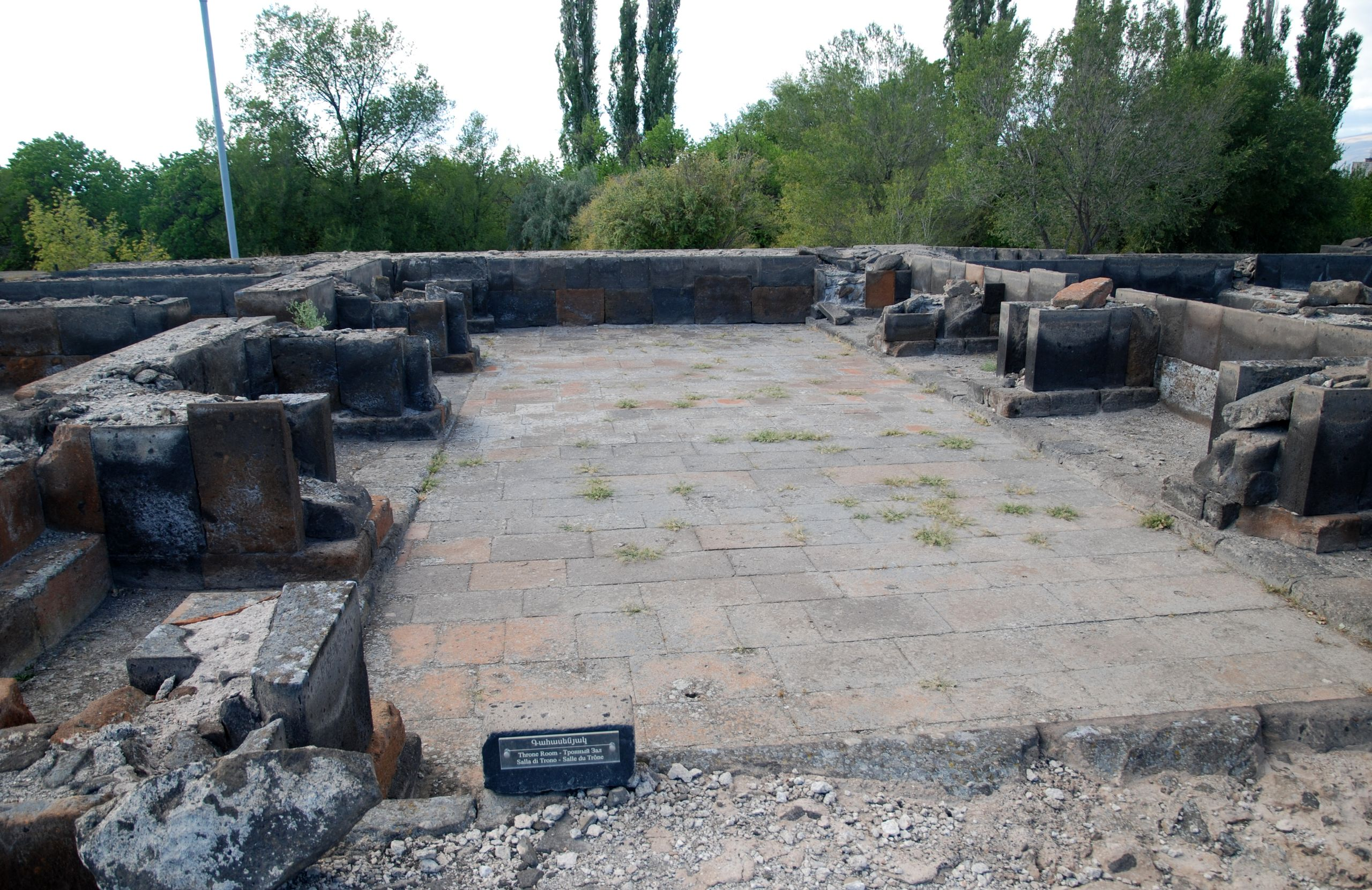 Zvartnots, throne room